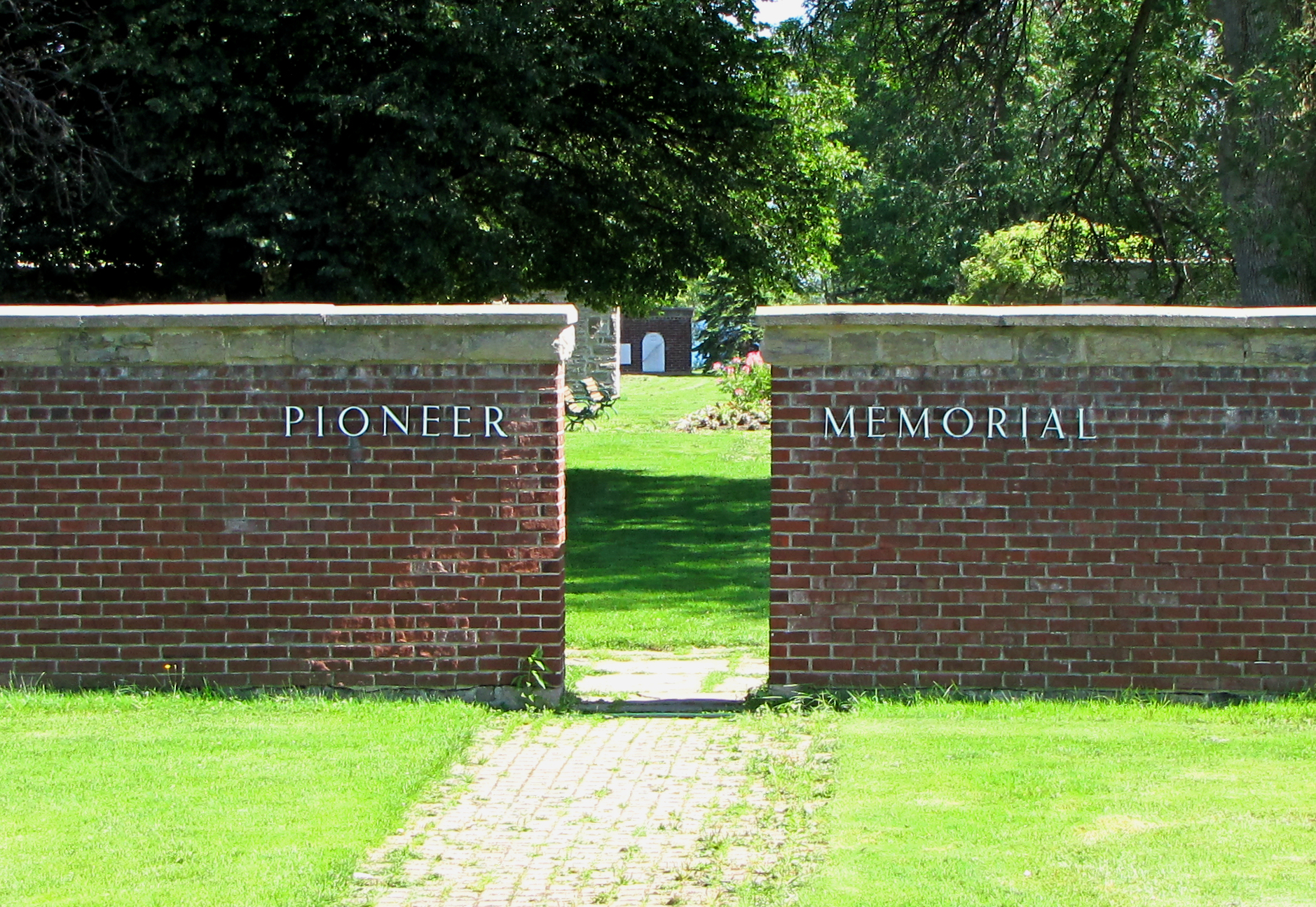 Entrance to Pioneer Memorial, outside Upper Canada Village, Morrisburg, Ontario, Canada